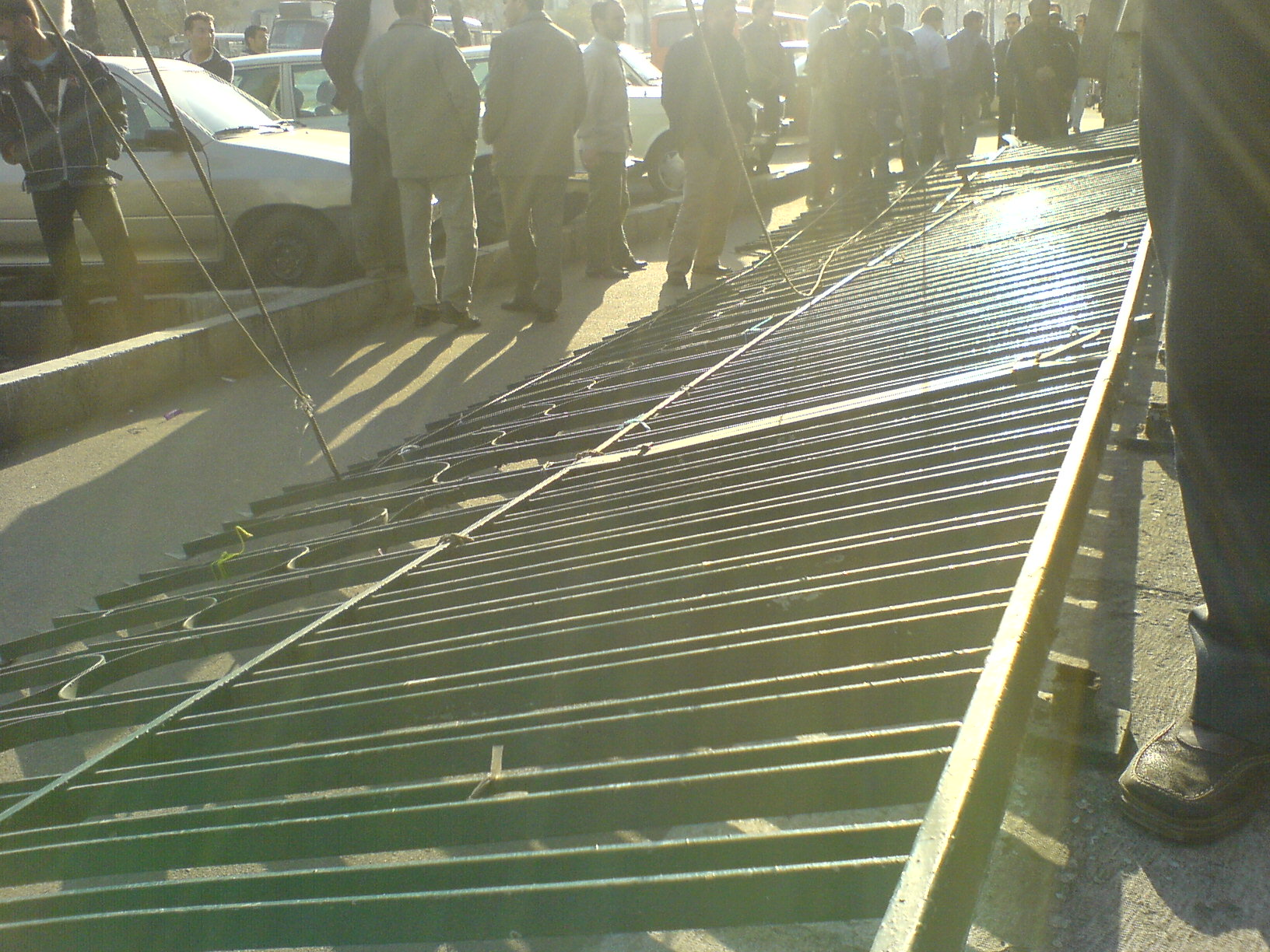 Sharif student pulling down fences after Burials Of War Dead inside university.